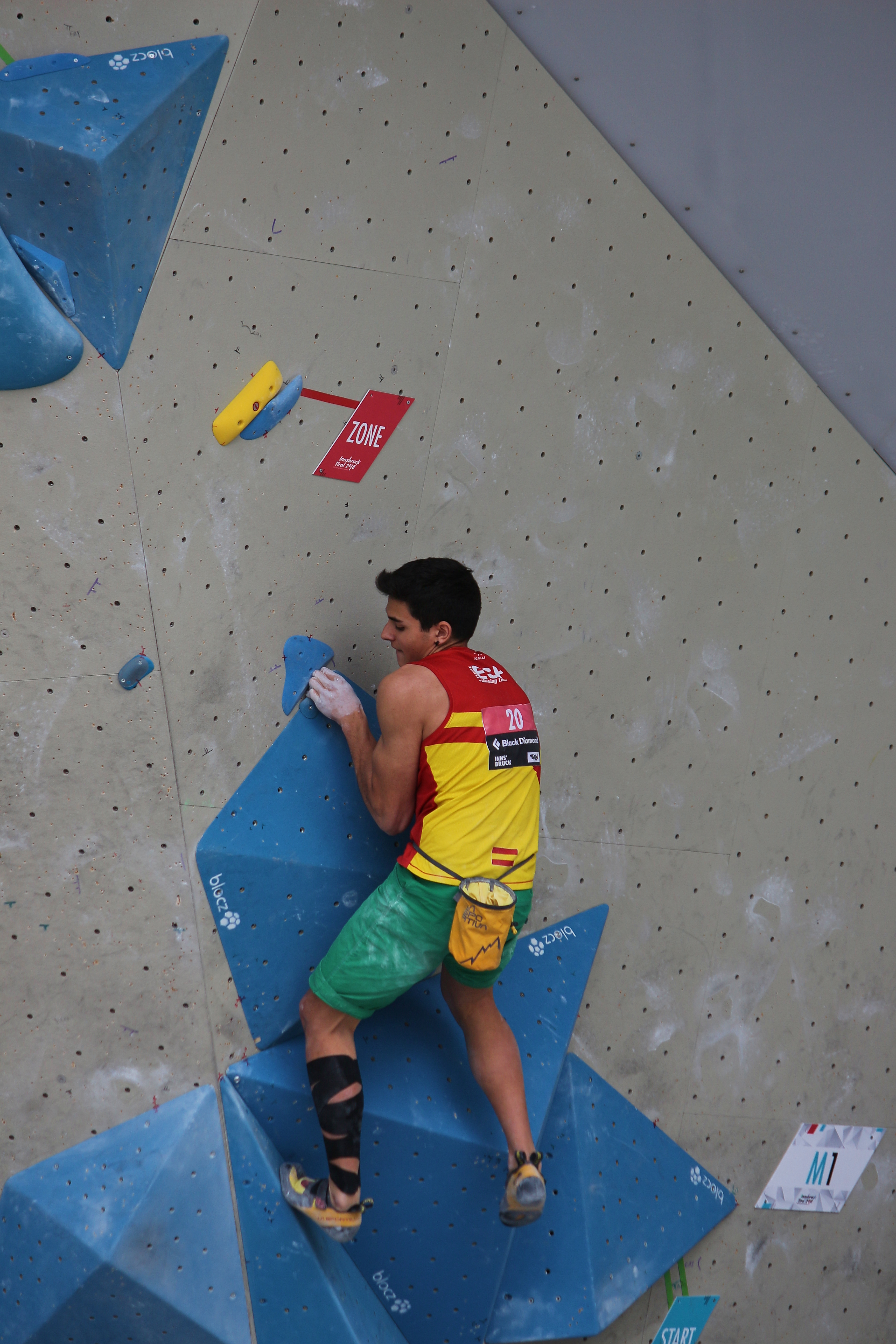 Alberto Ginés López